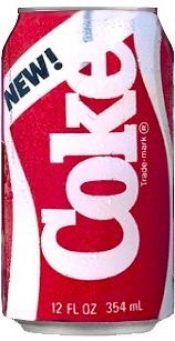 New Coke can